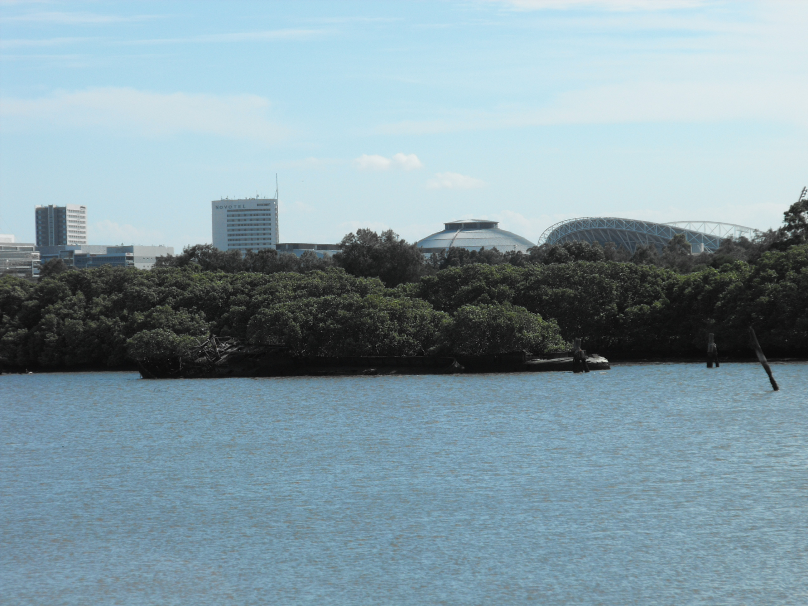 The overgrown hulk of the net-defence ship HMAS Karangi in Homebish Bay